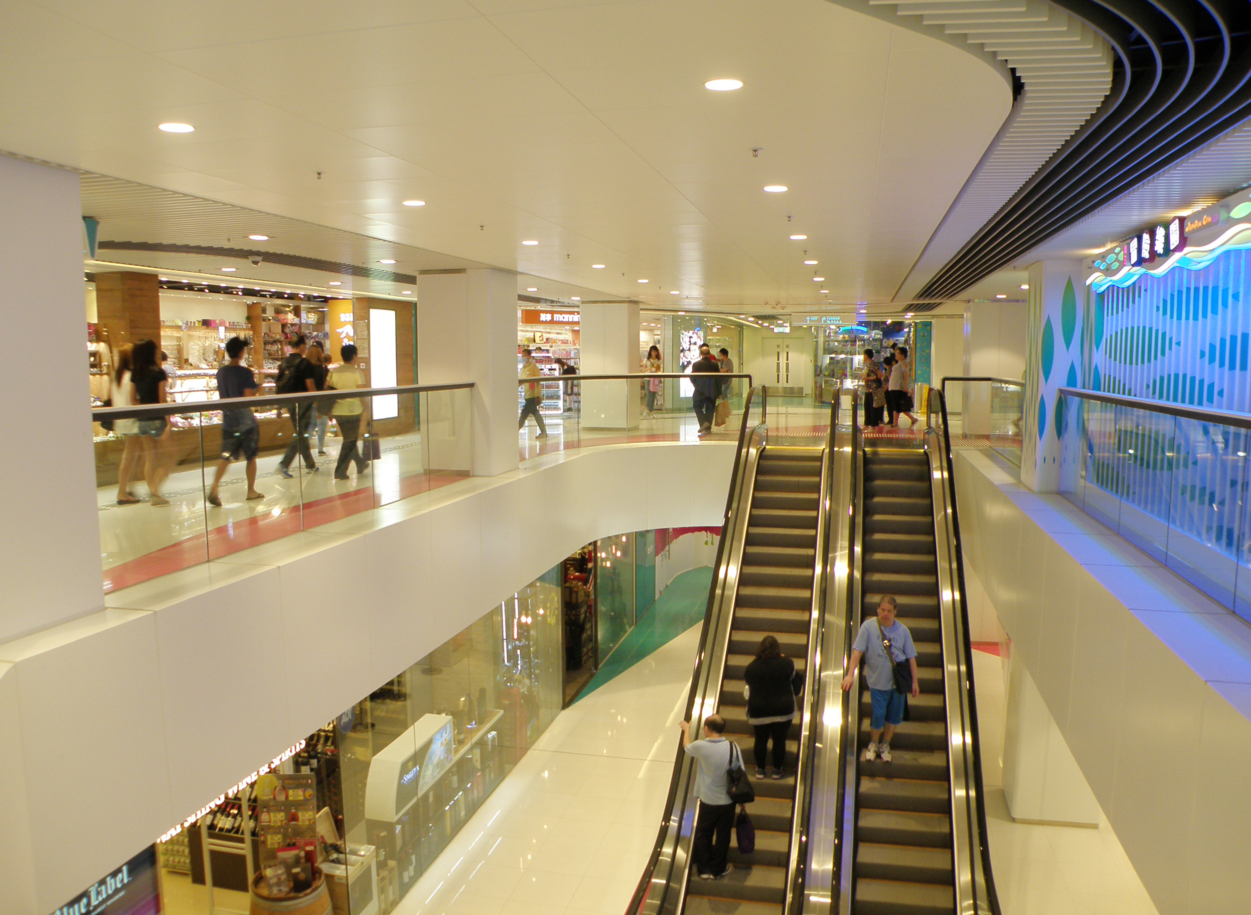 H.A.N.D.S in Tuen Mun, Hong Kong.